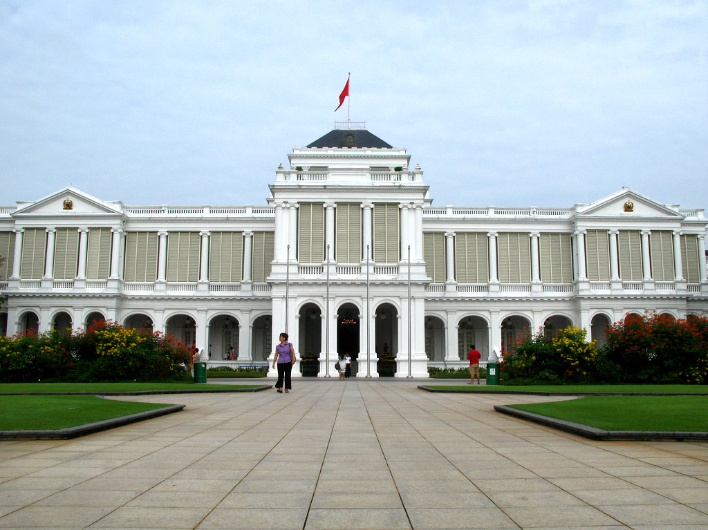 The Istana, Singapore, photographed during the Chinese New Year open day in 2009.